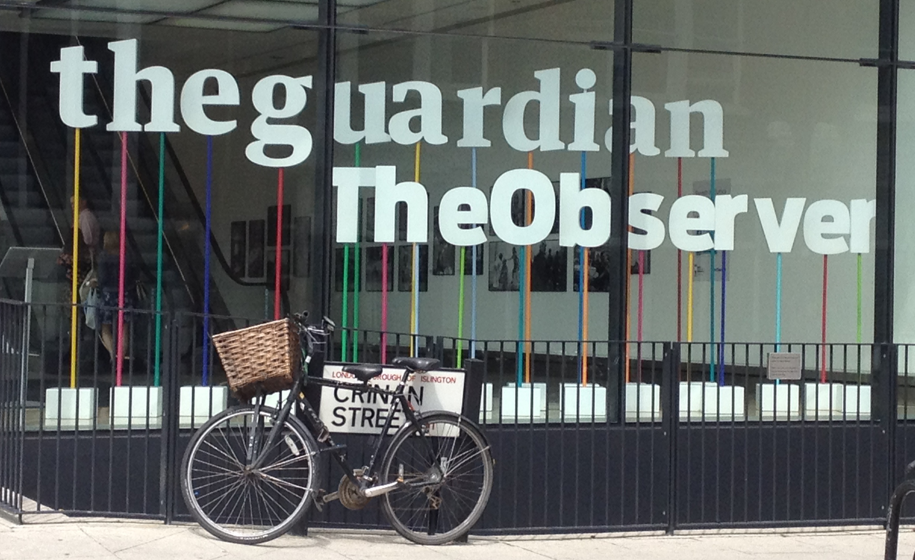 Window of the building housing The Guardian newspaper, London England